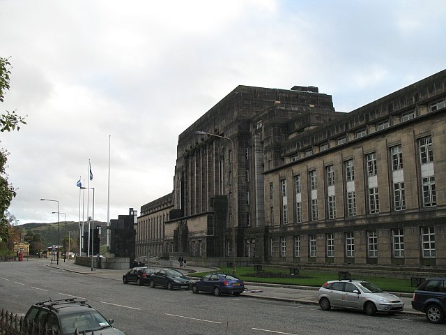 St Andrew's House Scottish Government offices on Calton Hill. Very 1930's.